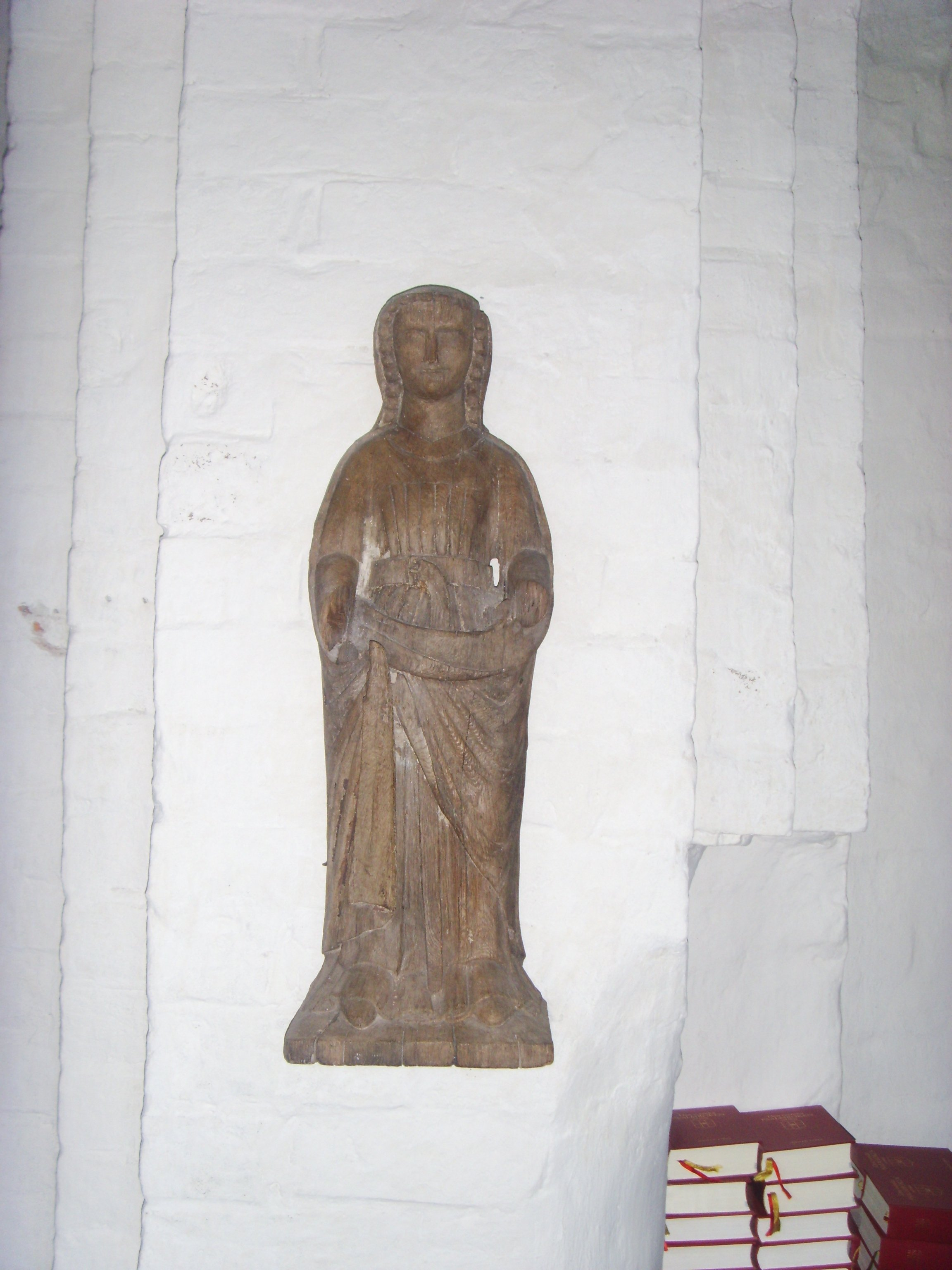 When the Orden of St Dominic came to Sweden 1237 they built a convention (monestery) in Skänninge and in the same time the first brickhouses in Sweden started to builts. The church in Järstad was probably the first church on the countryside with bricks, from around 1250. The summer 2008 they restored the church.